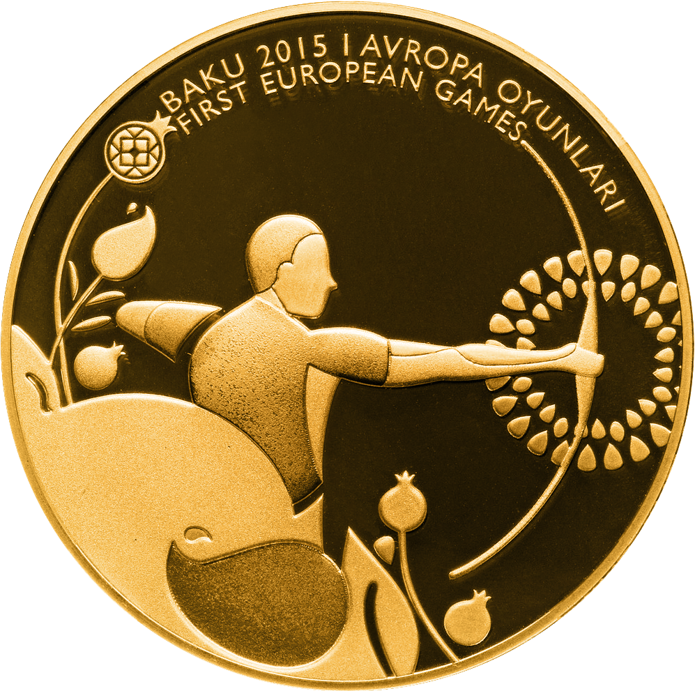 Commemorative coin of Azerbaijan